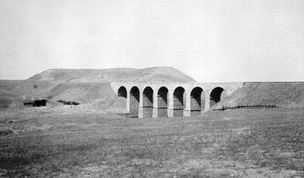 Sheria, Palestine. View of the railway bridge which was repaired by Australian engineers.